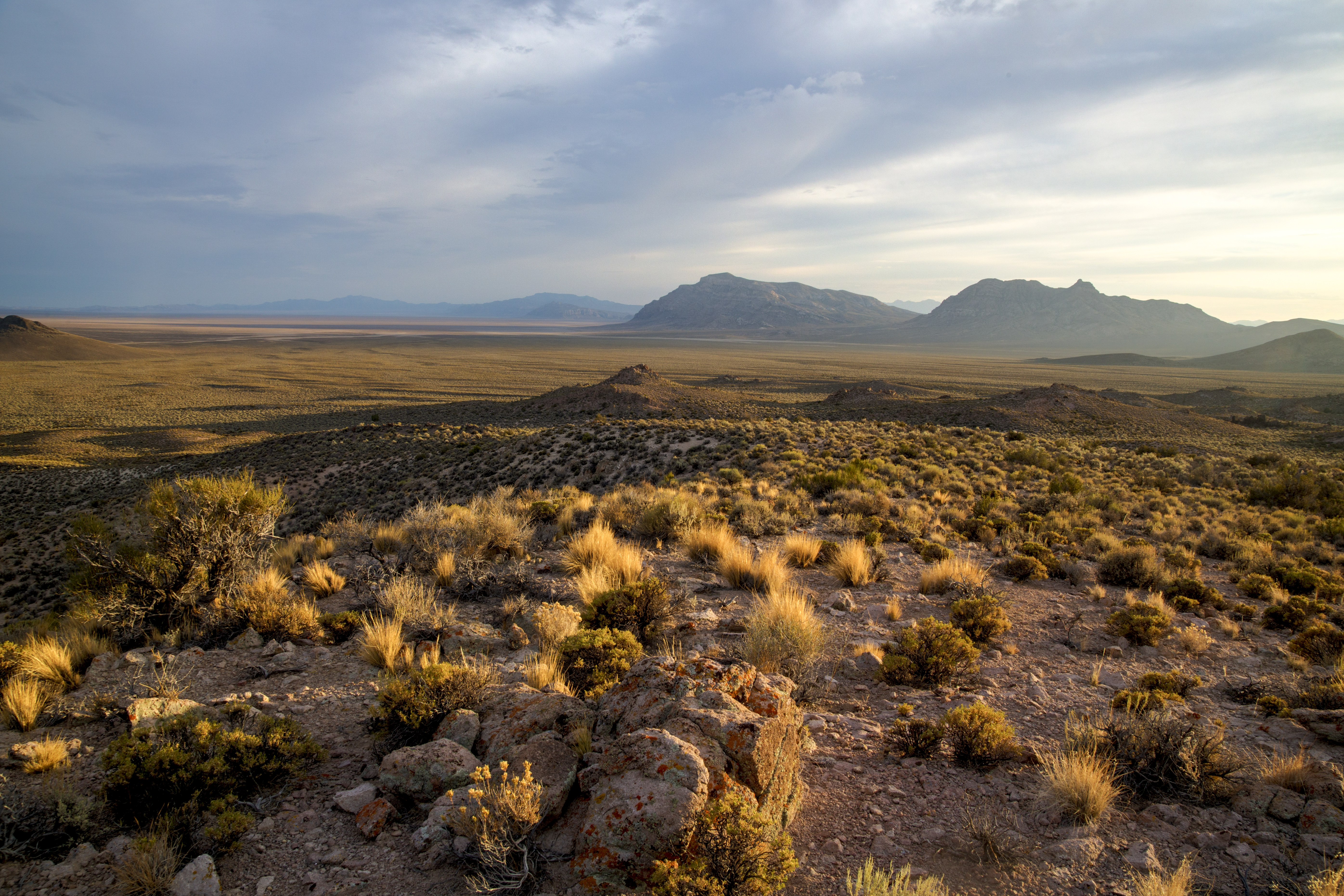 BLM Photo Bob Wick